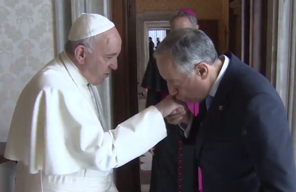 President Marcelo Rebelo de Sousa kisses Pope Francis's ring during his State visit to the Vatican, 2016.